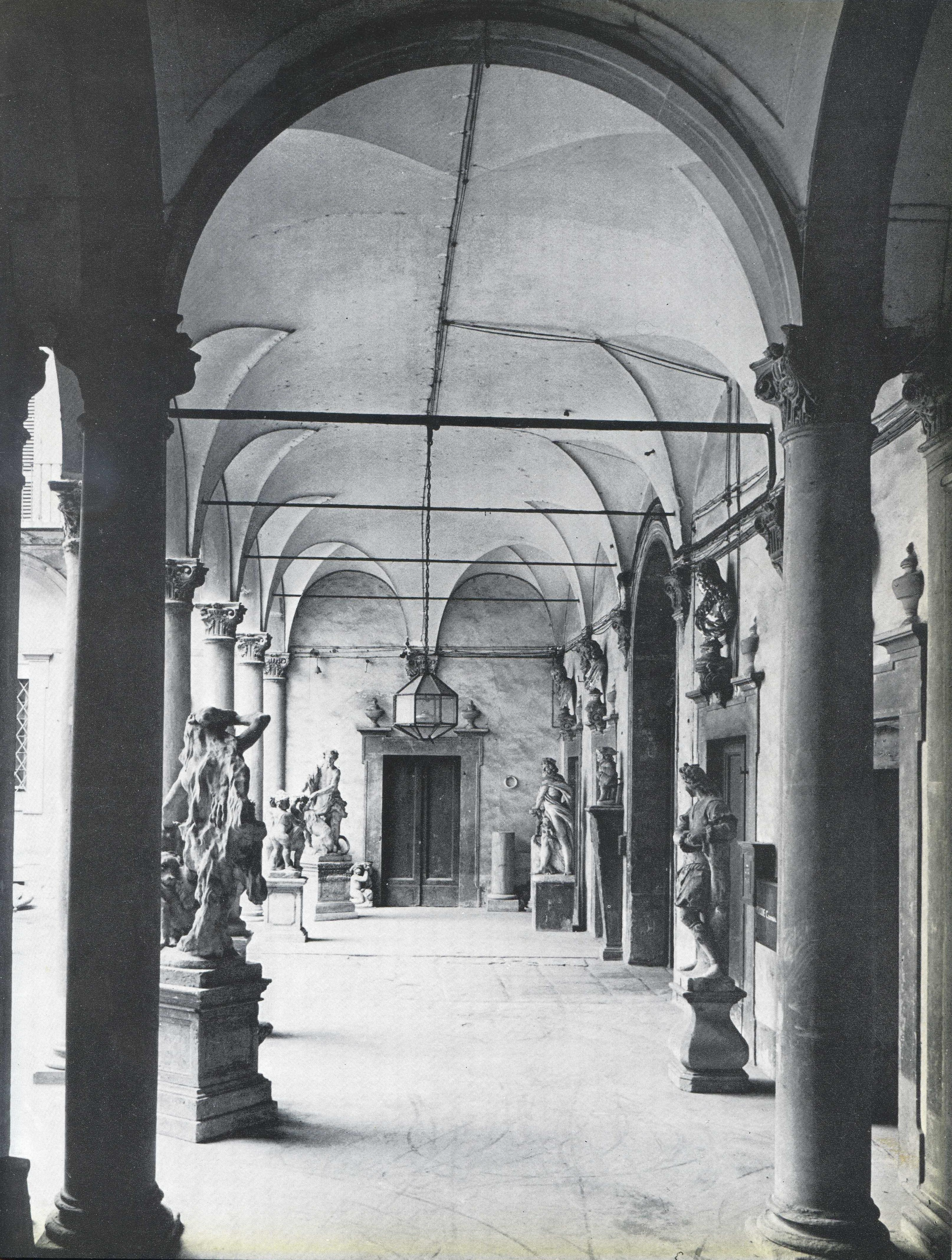 Palazzo del Pugliese. The cloister floor (First half of the twentieth century) 2